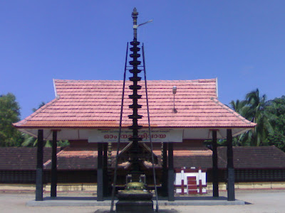 Thripperum thura Mahadeva temple